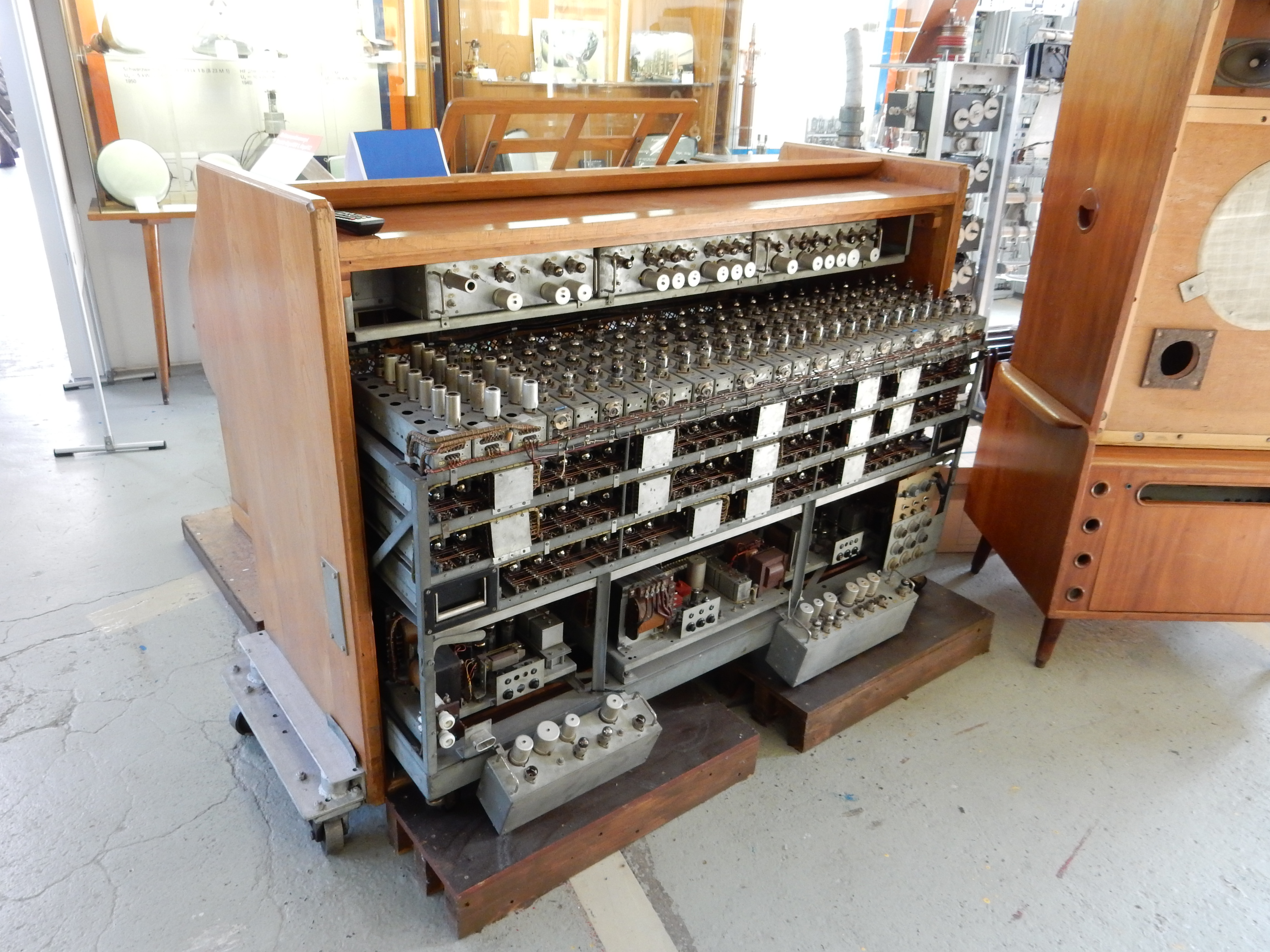 Detail of electronic organ EKI 1